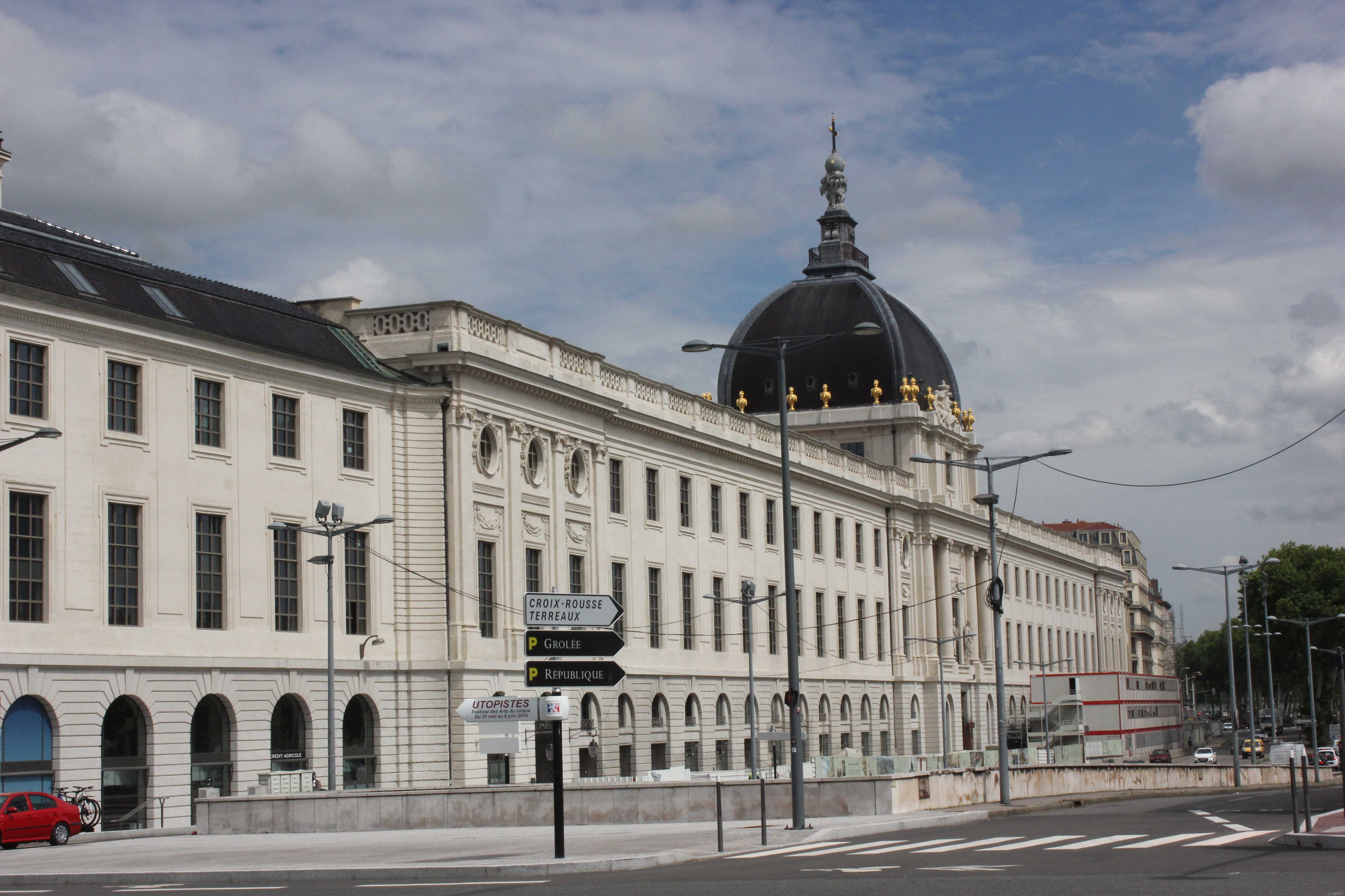 Lyon - Hôtel-Dieu